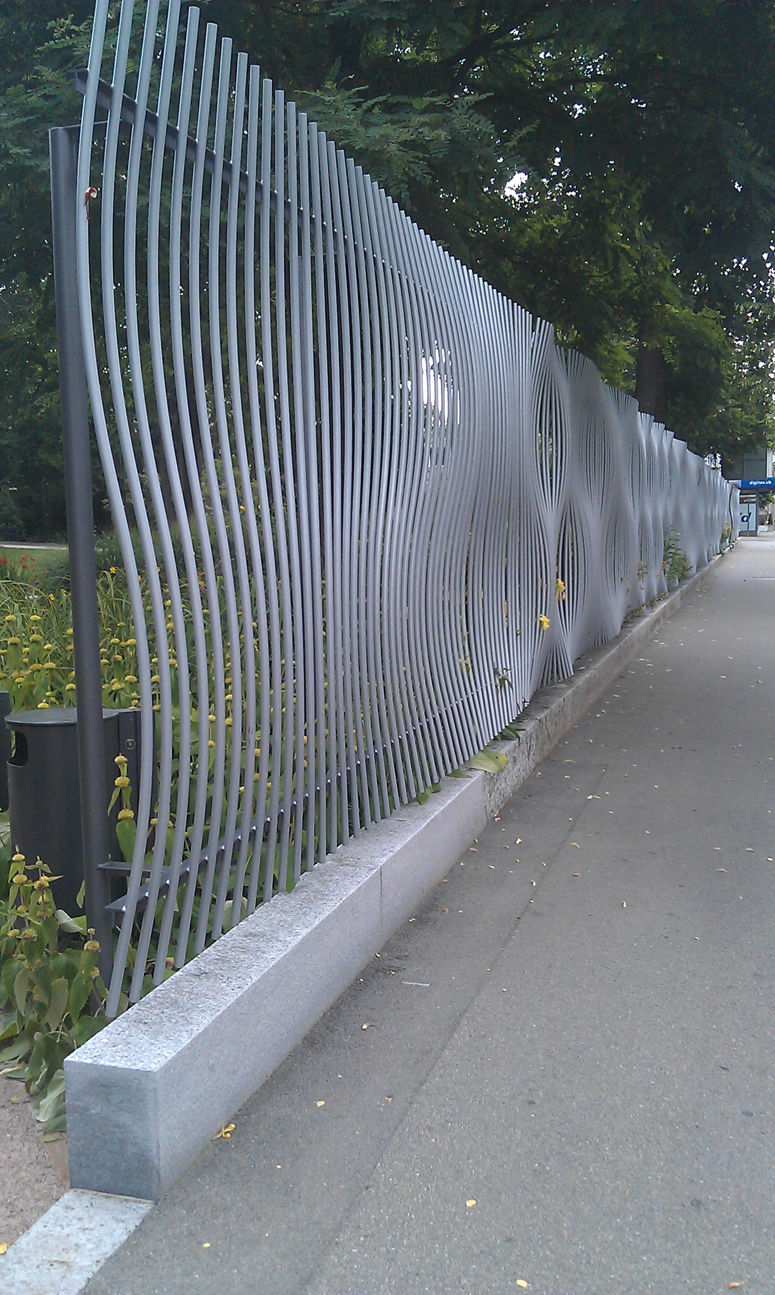 The dancing fence of the Brühlgutparc in Winterthur.